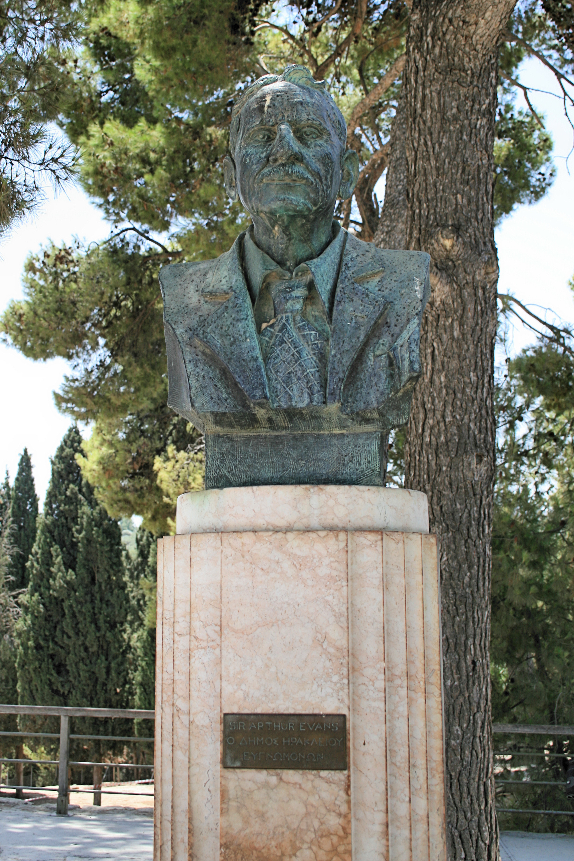 Bust of the archaeologist Sir Arthur John Evans at the Palace of Knossos on the Greek island of Crete.